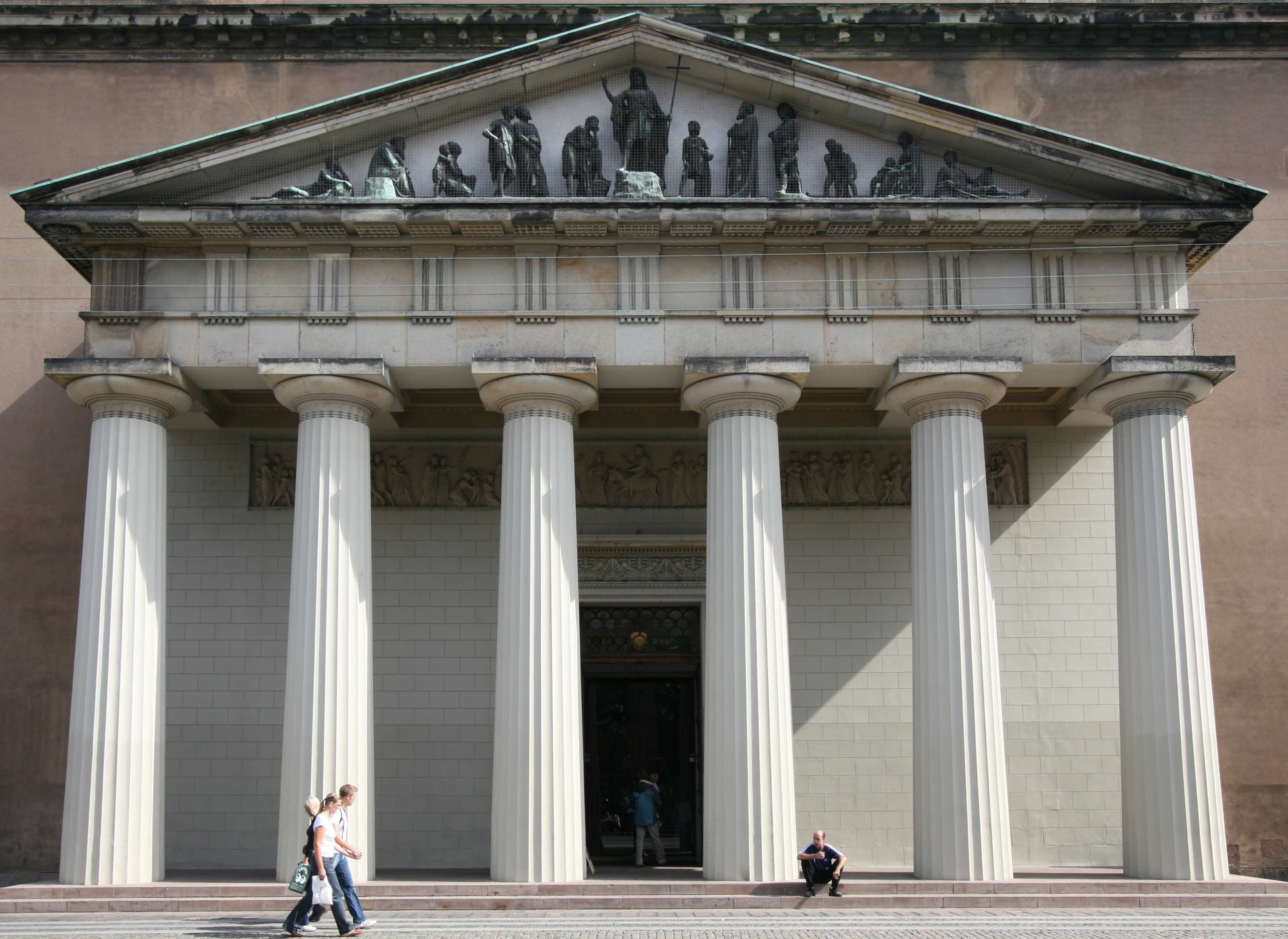 Vor Frue Kirke in Copenhagen, Denmark. The cathedral of Copenhagen. Entrance.